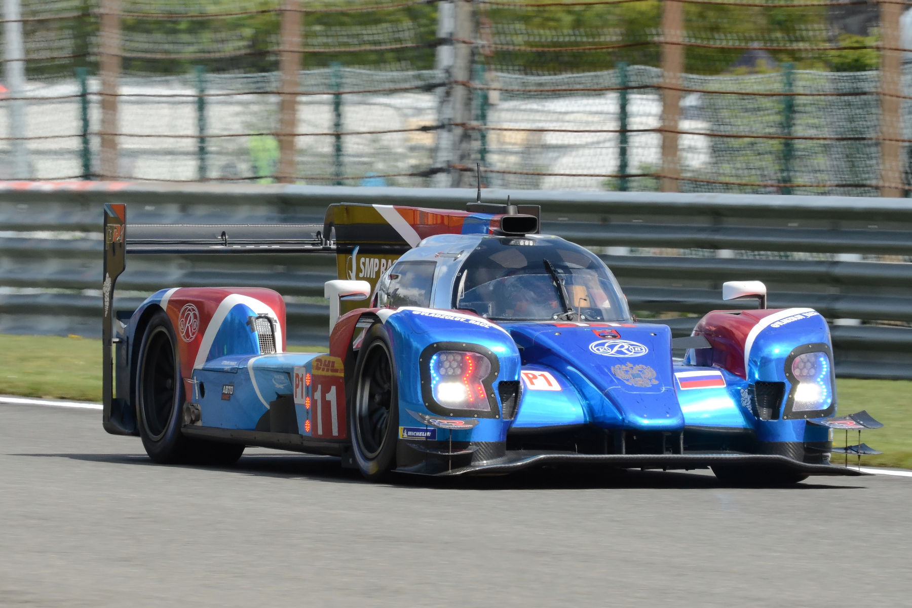 SMP Racing's BR Engineering BR1 AER Driven by Mikhail Aleshin, Stoffel Vandoorne and Vitaly Petrov at the 2019 6 Hours of Spa